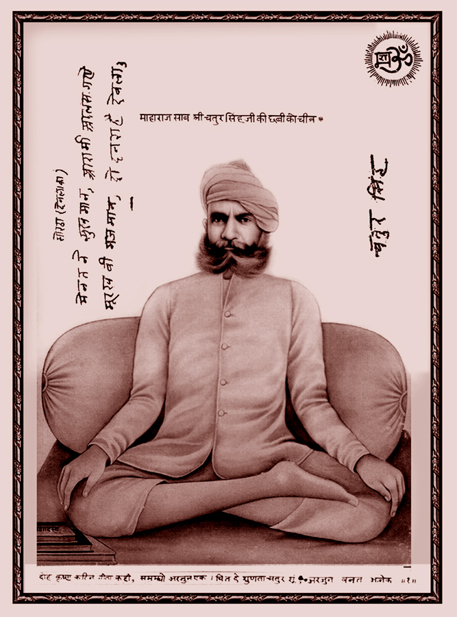 Sepia image of the hand-drawn portrait of बावजी चतुर सिंहजी Bavji Chatur Singhji, by the renowned Chittara (artist) Panna Lal, dressed in typical coarse hand-spun cloth (REJA) and his typical headdress (PHENTA), seated in YOGASAN MUDRA (c. 1925)